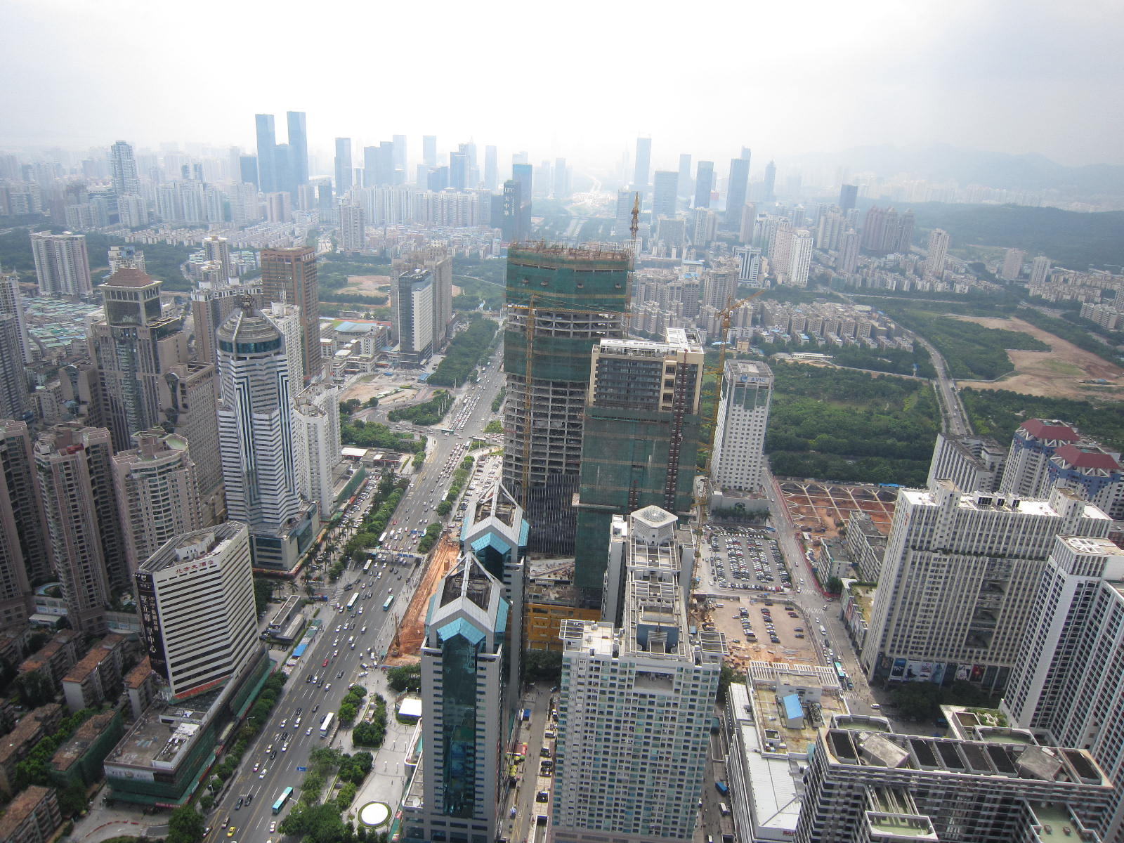 26 Jul 2010. View on Shenan street and 2010 AVIC Plaza construction site from the 63rd floor of SEG Plaza Tower.